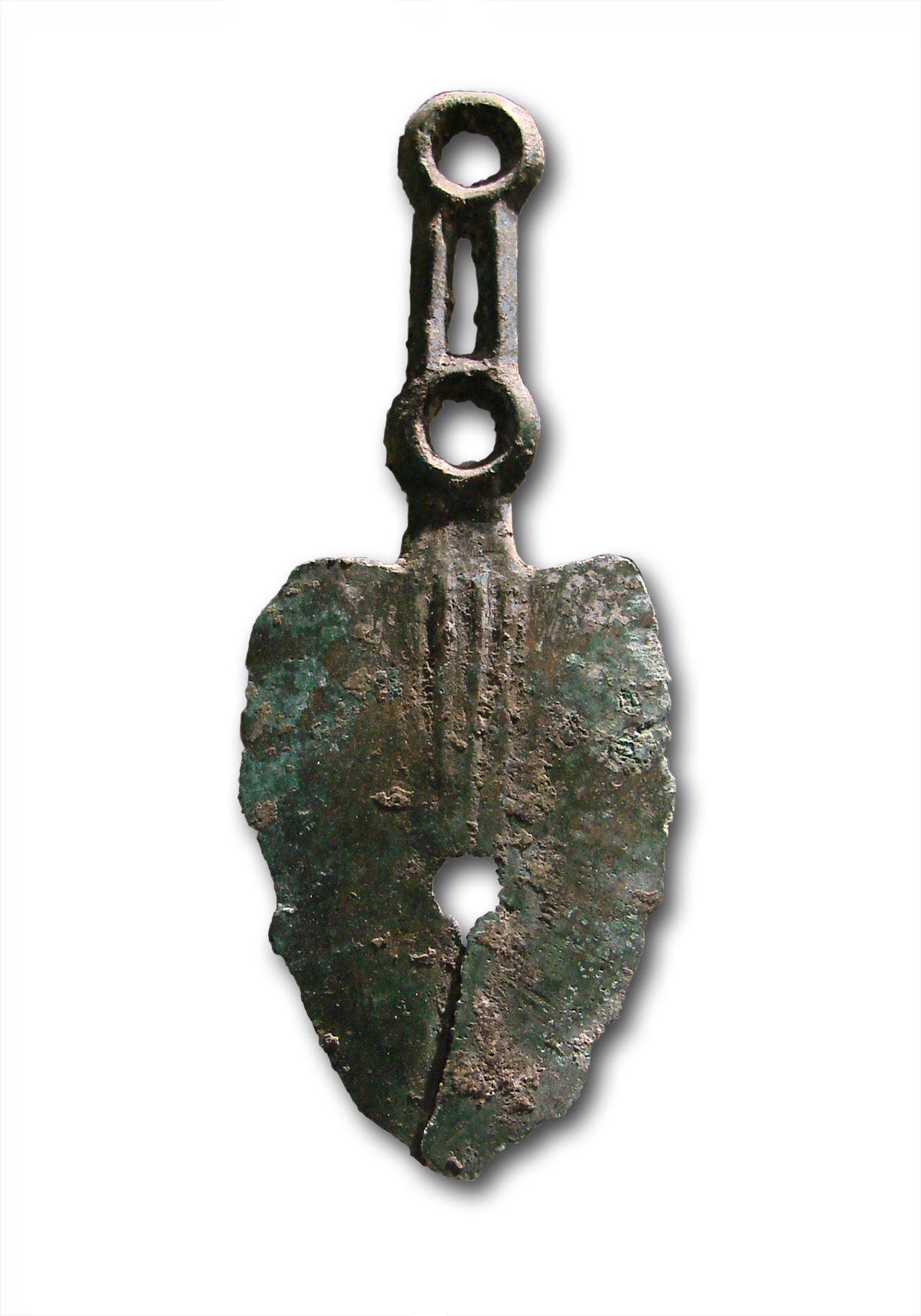 Bronze Razor from the Hallstatt culture. Musée de l'Ardenne, France. The handle is fixed and the razor has two cutting edges. Decorative ridges can also be seen following the direction of the handle into the blade. The pointed tip of the blade indicates additional uses as a knife or a weapon. The three circular holes on the handle and the blade body indicate the possibility they could be used for fasteners in a spear head as well. It is on exhibit at the Ardennes Museum in France.